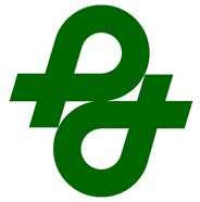 Nagakute Aichi chapter